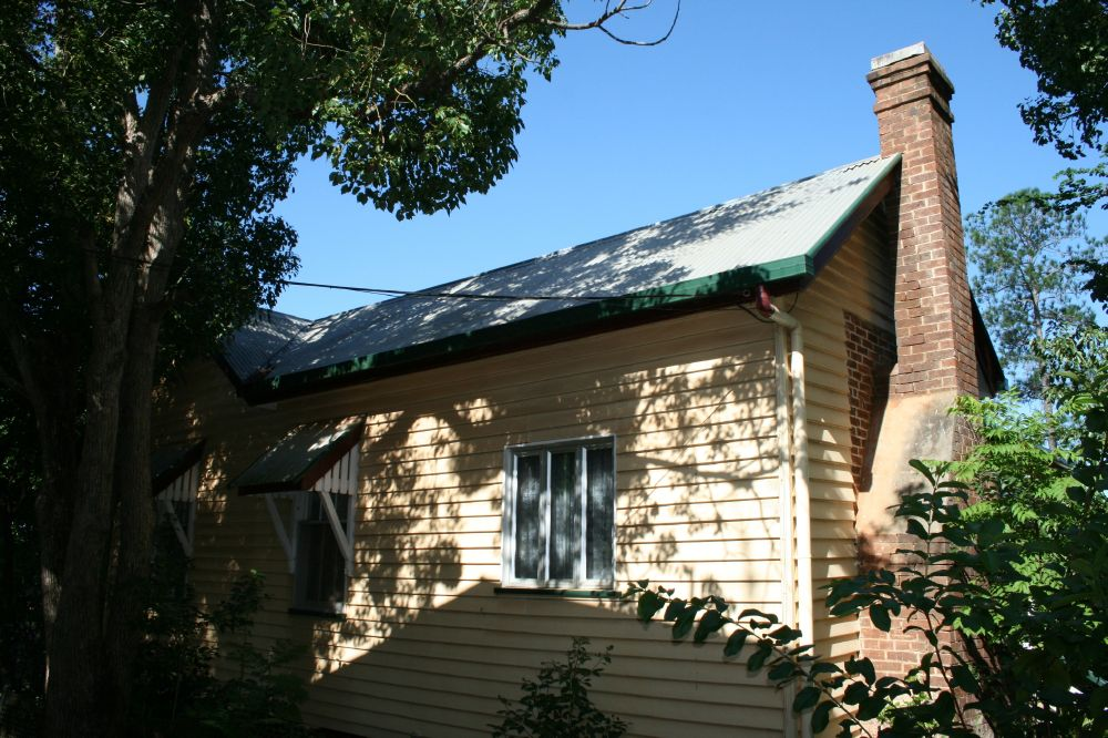 Redland Bay State School Residence - NW wall from rear (2009)